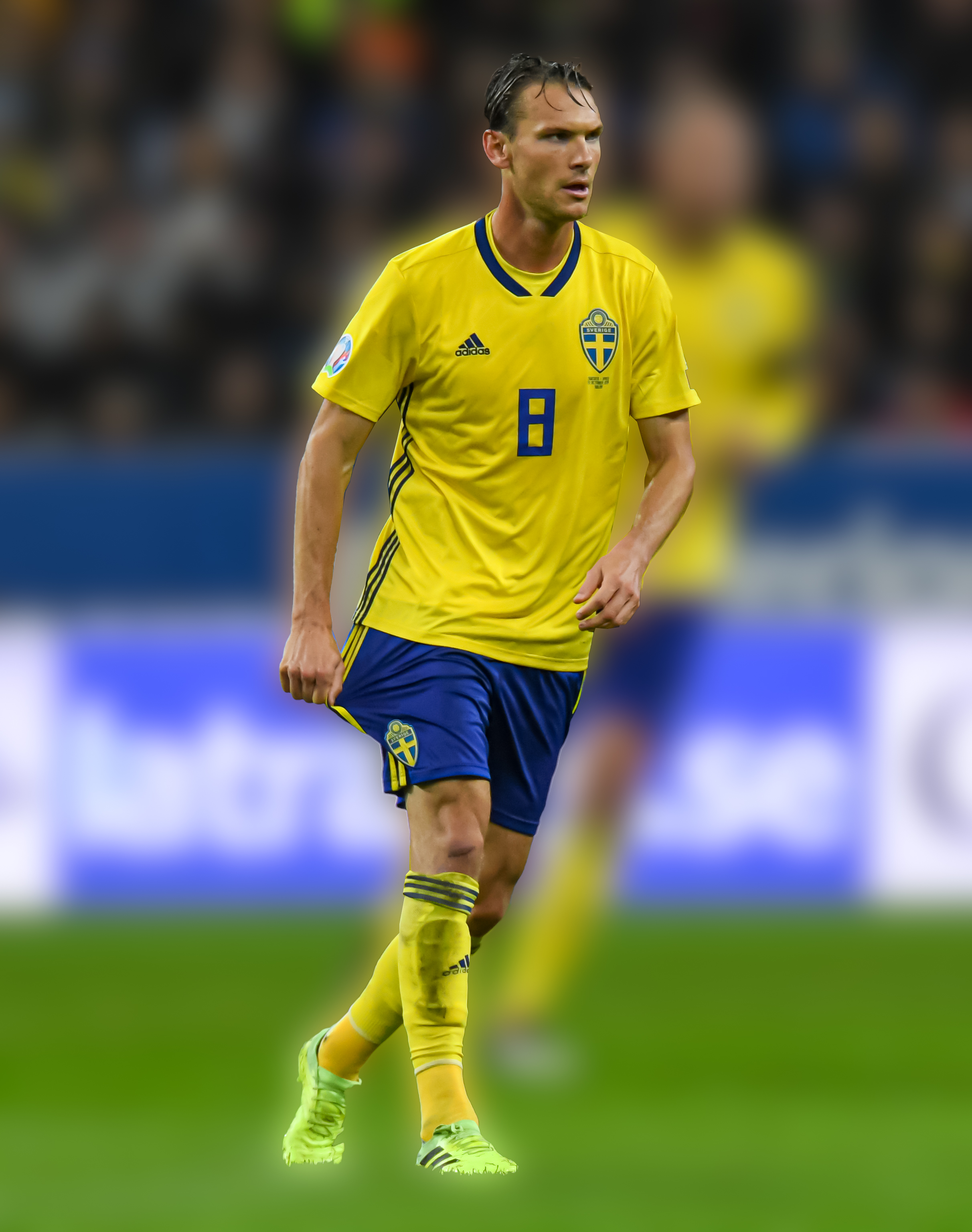 UEFA EURO qualifiers Sweden vs Spain 20191015